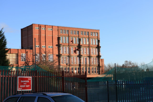 Nestle factory York Since the takeover over of the Rowntrees company by Nestle, some of the buildings in the factory have been demolished, the building in the picture is remaining for now. To the right hand side you can see the older building with the higher quality architecture, the extension on the left hand side is more utilitarian.